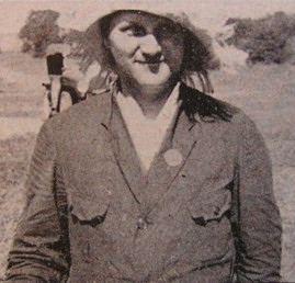 Niels Hansen Ditlev Larsen at the 1924 Olympics